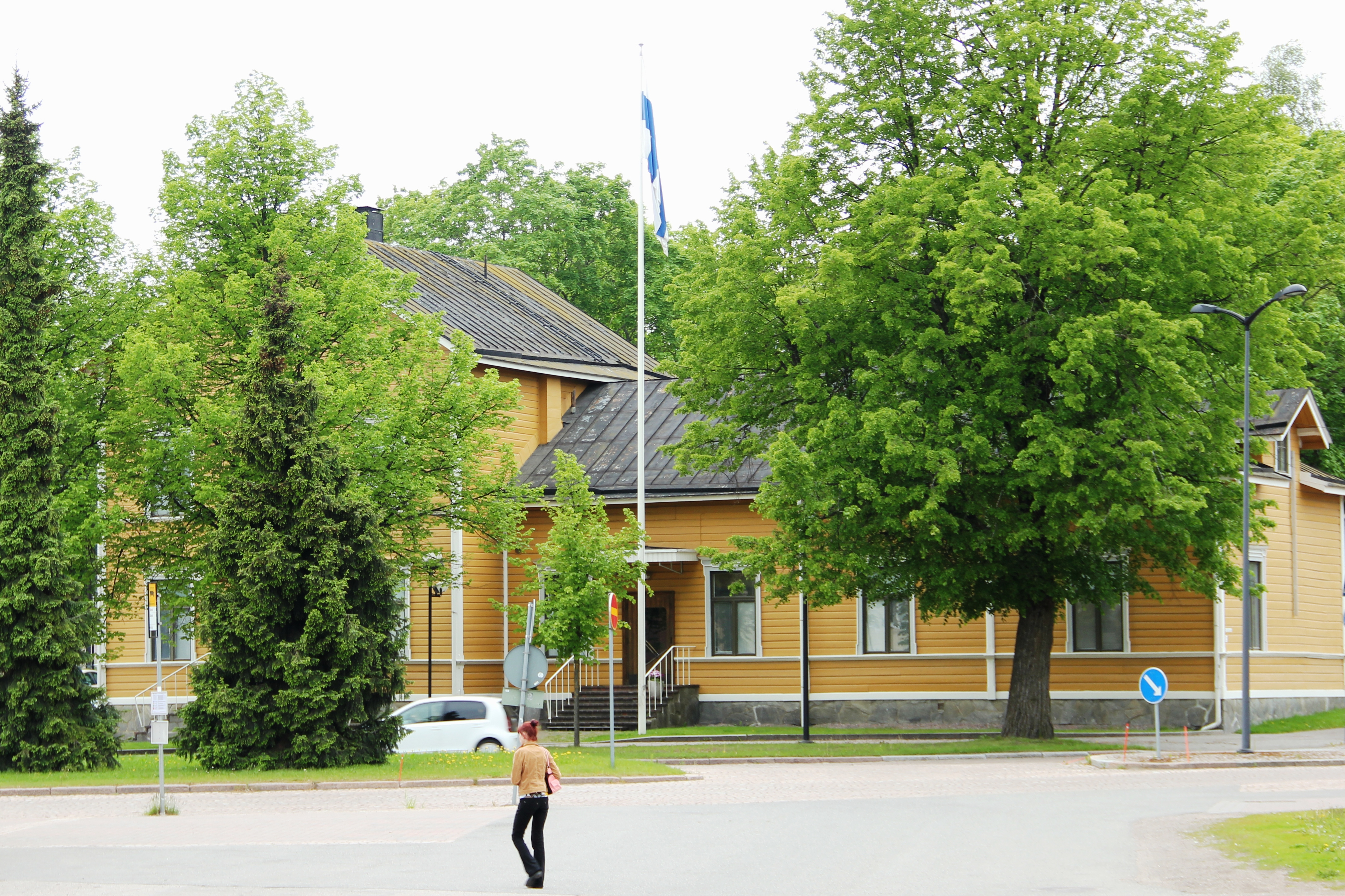 H. G. Paloheimo Oy, head office, former hotel, by the railway station square in Riihimäki, Finland